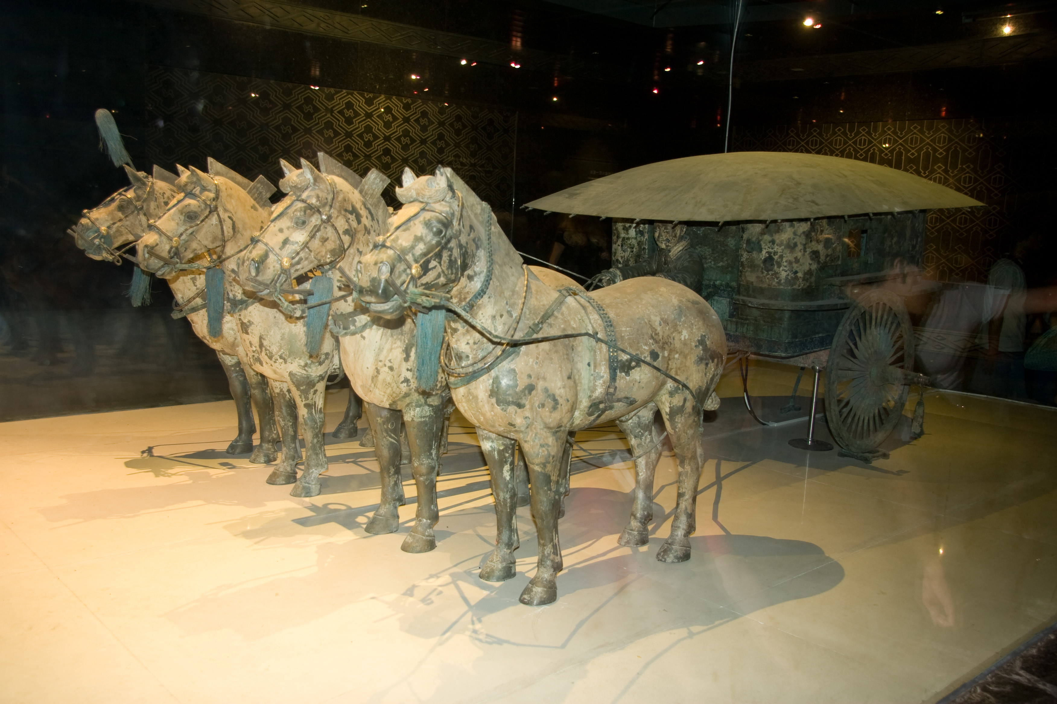 Terracotta Army - in Xi'an, China